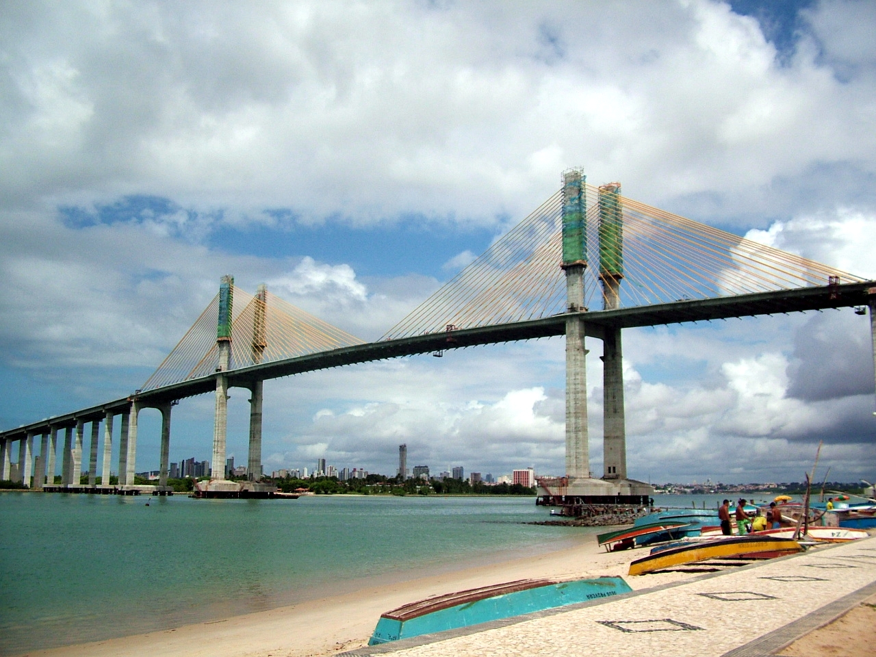 Ponte Newton Navarro em Natal, Rio Grande do Norte, Brasil pelo Flickr Newton Navarro Bridge in Natal, Rio Grande do Norte, Brazil for the Flickr